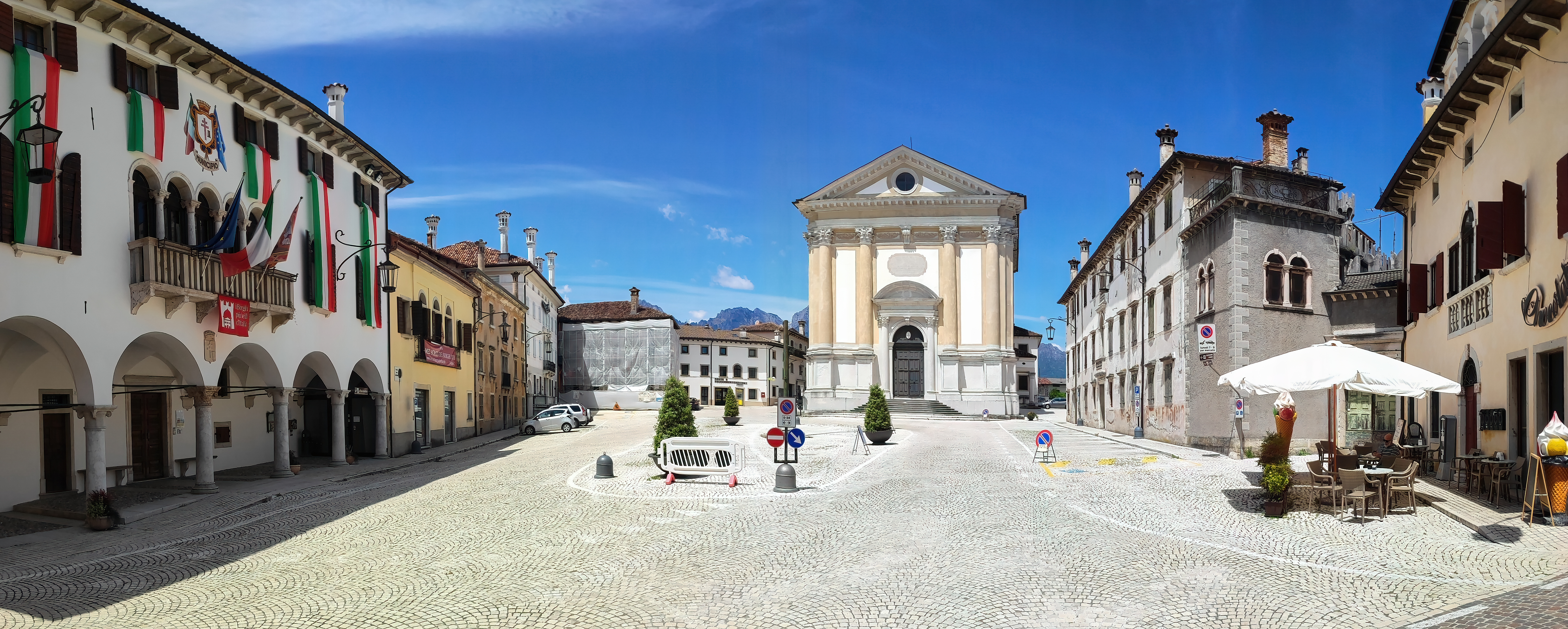 Piazza Papa Luciani, Mel